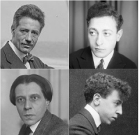 Images of Fritz Kreisler, Jascha Heifetz, Alfred Cortot and Artur Rubinstein composited for use in article on John Barbirolli as four of the soloists whom Barbirolli accompanied in his early recordings.